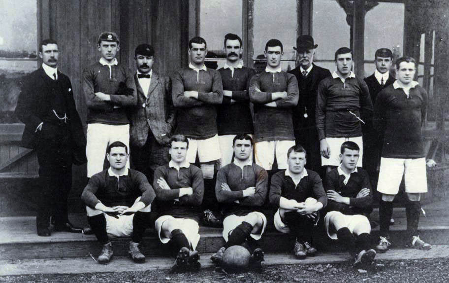 The Forest side that played a Rosario Combined at Plaza Jewell, during their tour to Argentina and Uruguay in the summer of 1905. Back Row L-R – Bob Norris, Harry Linacre, H Hallam (Secretary), Clifford, Chas Craig, William Shearman, H S Radford (Vice President), Sam Timmins, Alf Spouncer, Fred Lessons. Front Row L-R – Walter Dudley, Thos Davies, Thomas Niblo, George Henderson, Albert Holmes.